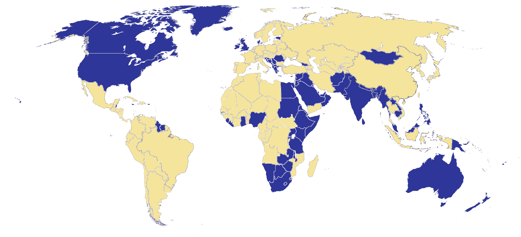 This map shows, in blue color, the countries where the English Wikipedia is the most popular language version of Wikipedia. The information has been sourced from here